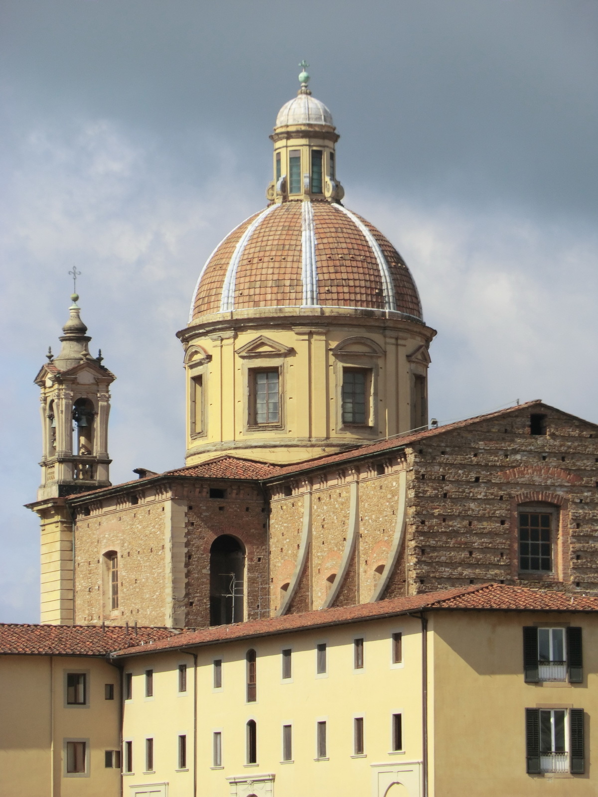 San Frediano in Cestello, Florence, Italy